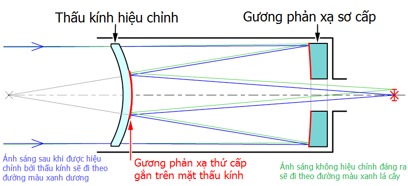 Concept design of the Maksutov telescope